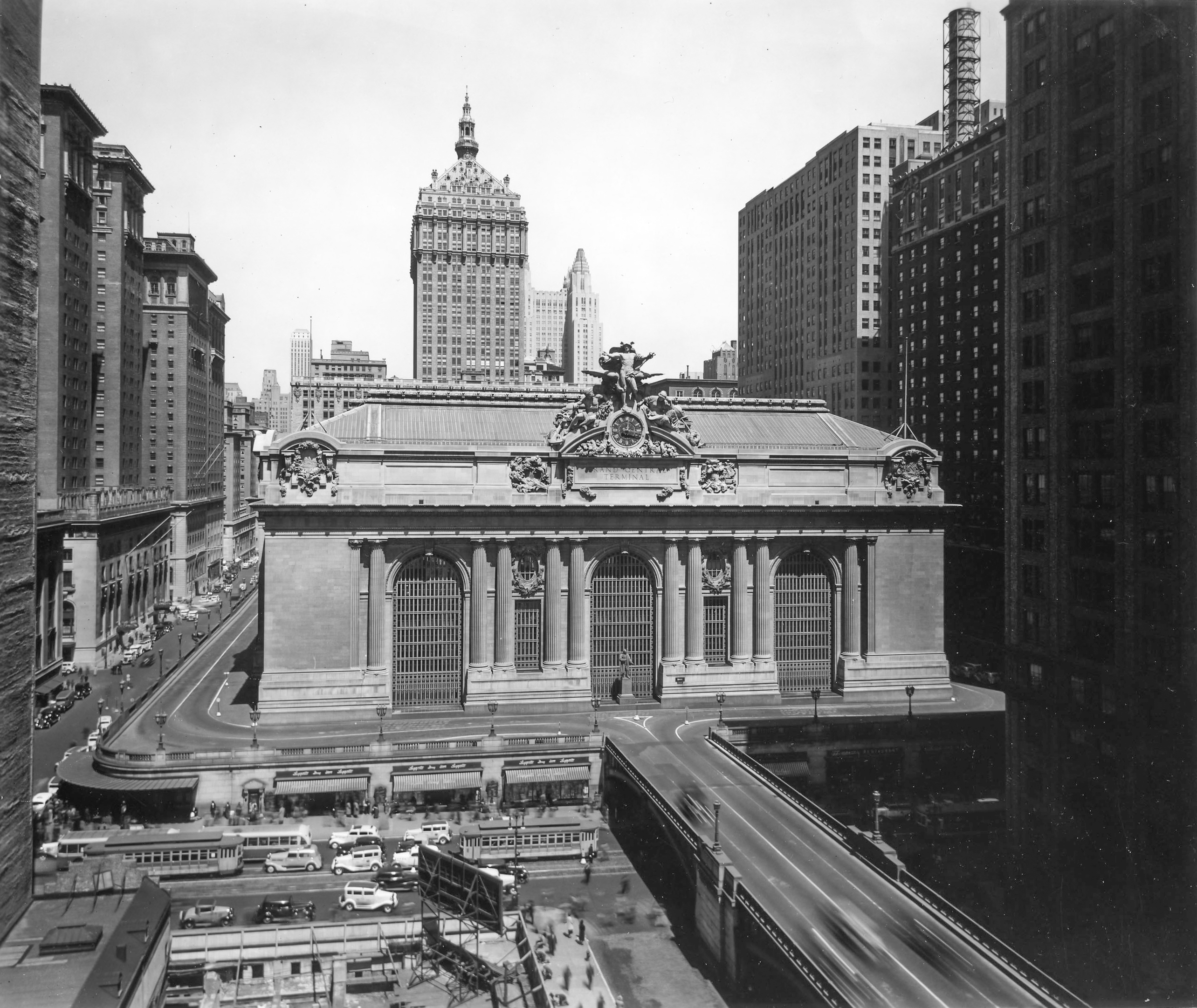 "Exterior view of the south side of Grand Central Terminal with the Helmsley Building (formerly the New York Central Building) in the background."